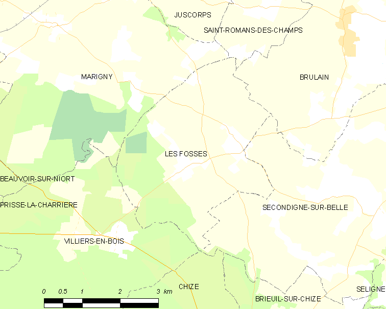 Map of French municipality Les Fosses